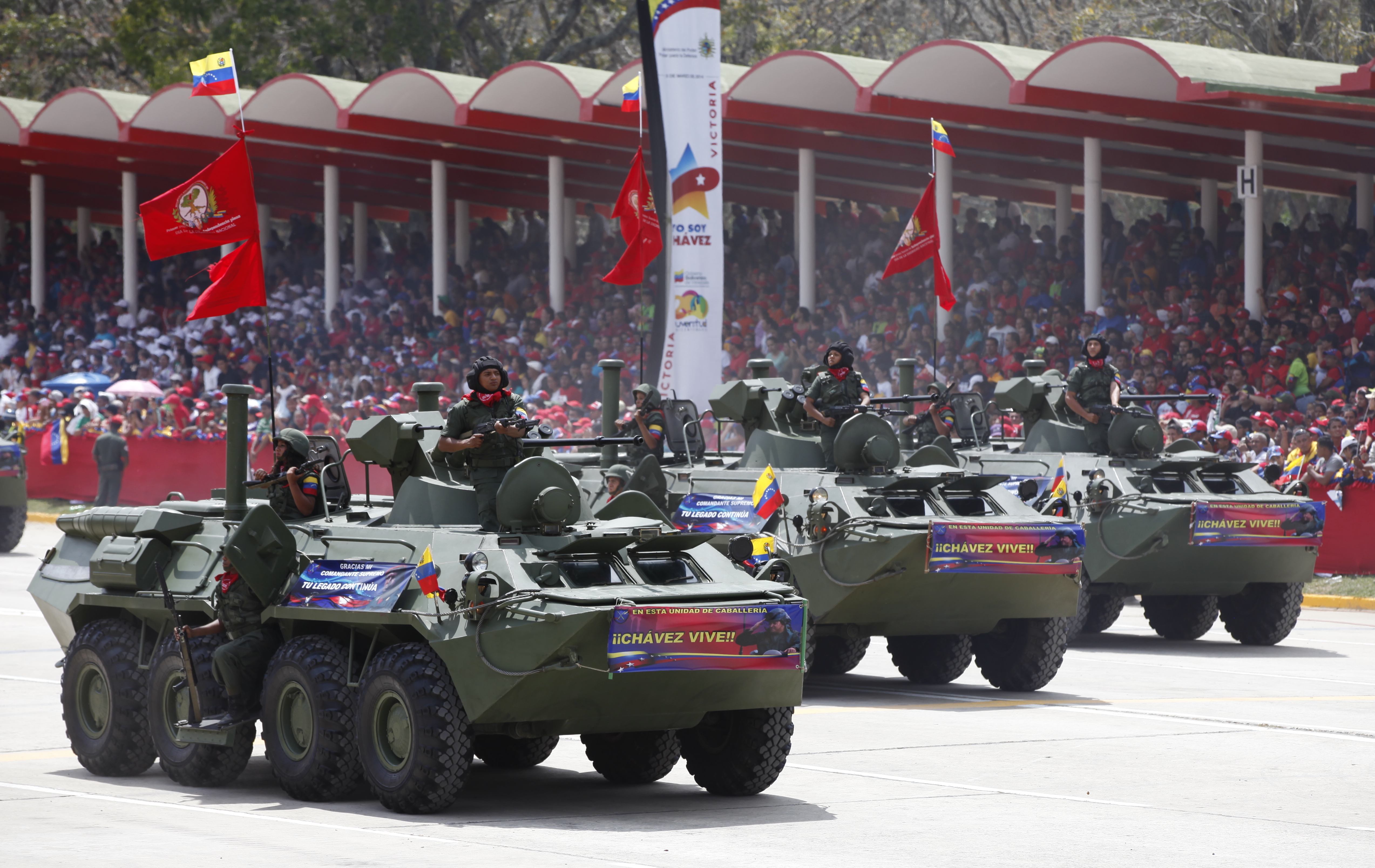 BTR-80A in Caracas, Venezuela on 5 March 2014 during the commemoration of Hugo Chavez's death.